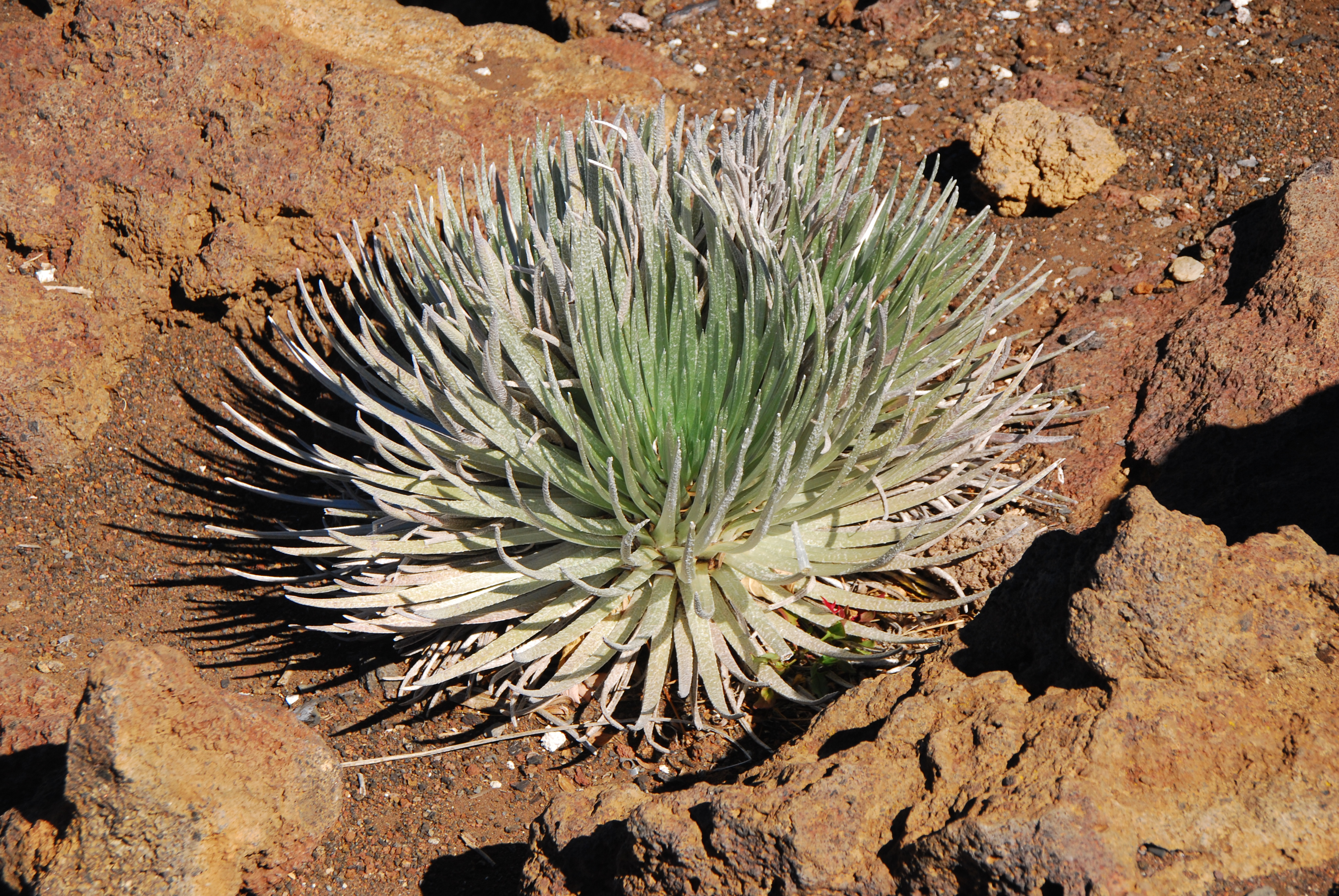 Argyroxiphium sandwicense subsp. macrocephalum, the Haleakalā silversword — not in bloom. Endemic plant of the Haleakalā volcano environs of Maui. Hawaiʻi: Ahinahina